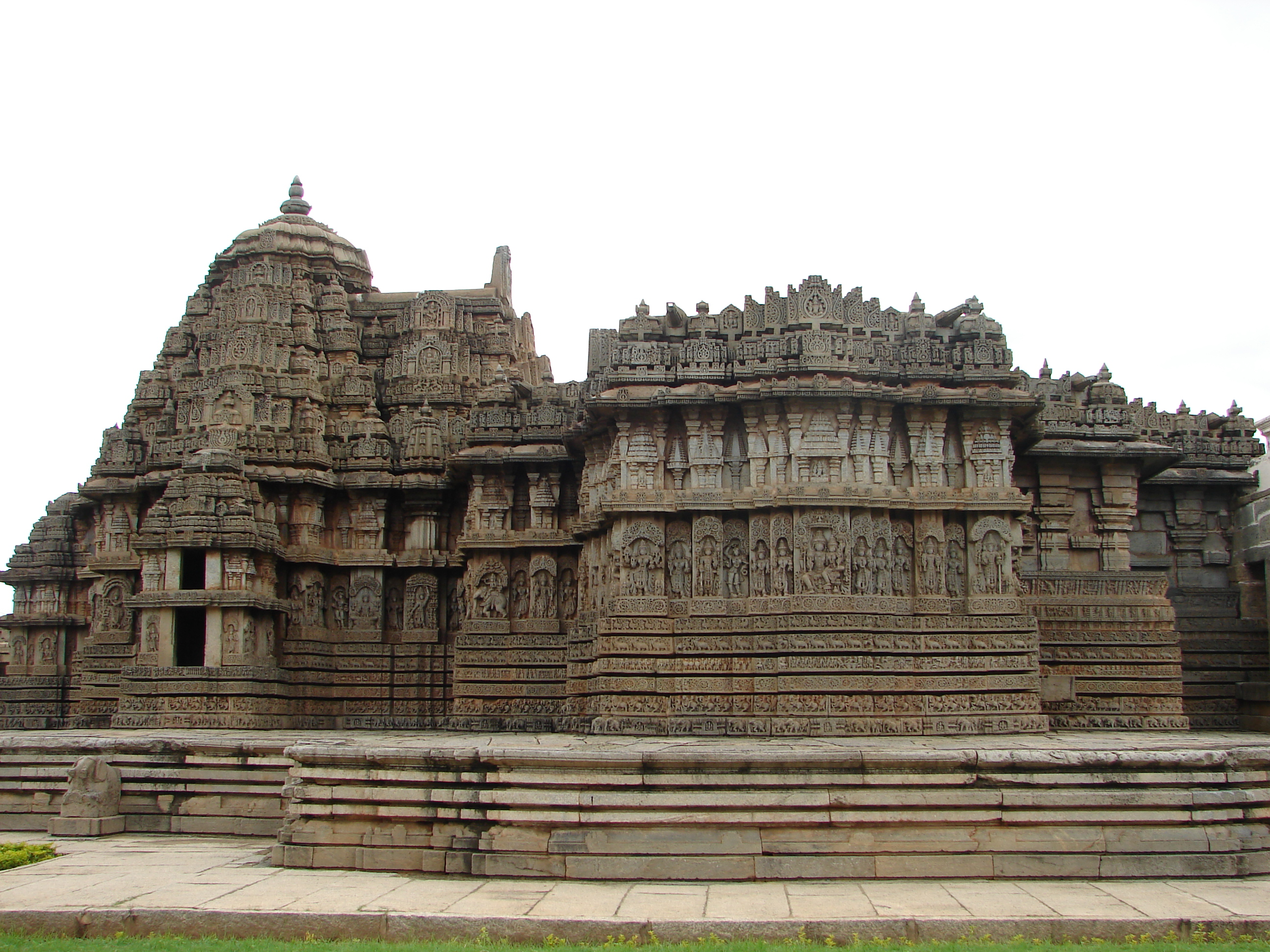 This photograph was taken by me at at Lakshminarayana temple in Hosaholalu, Mandya district, Karnataka state, India. The temple was built in 1250 A.D. during the reign of Hoysala Empire King Vira Someshwara. It is considered one of the ornate examples of Hoysala architecture. This is a profile view.